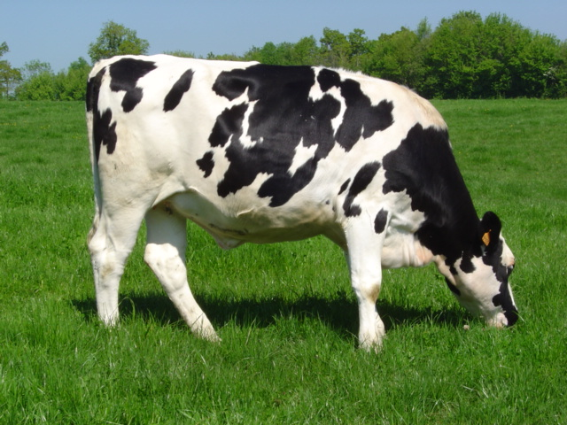 A Holstein heifer on pasture of a dairy farm in France